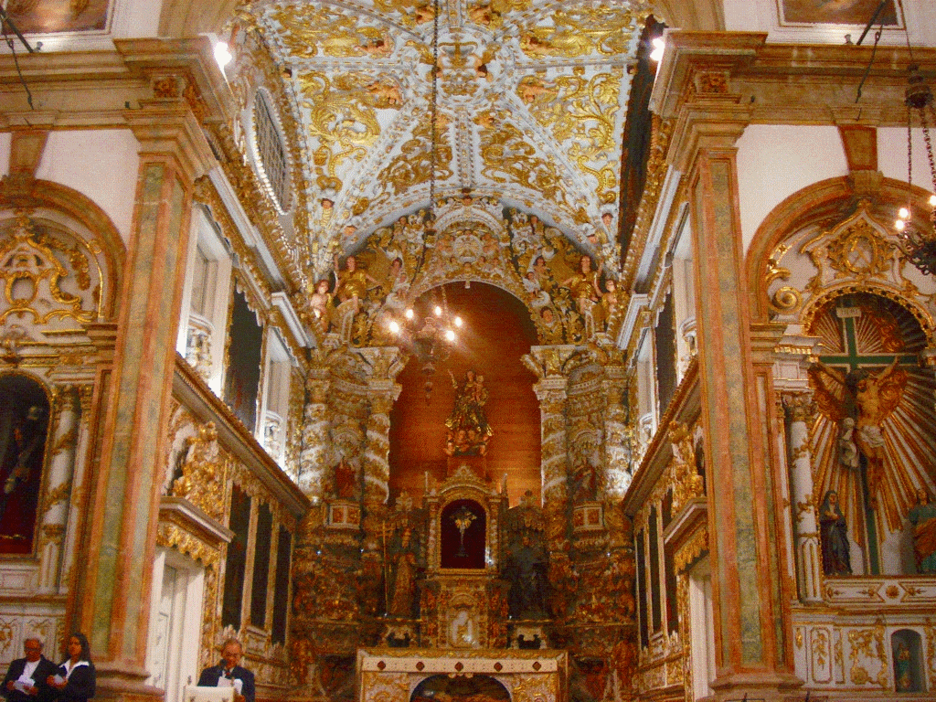 Church of the Mother of God - Recife, Pernambuco, Brazil